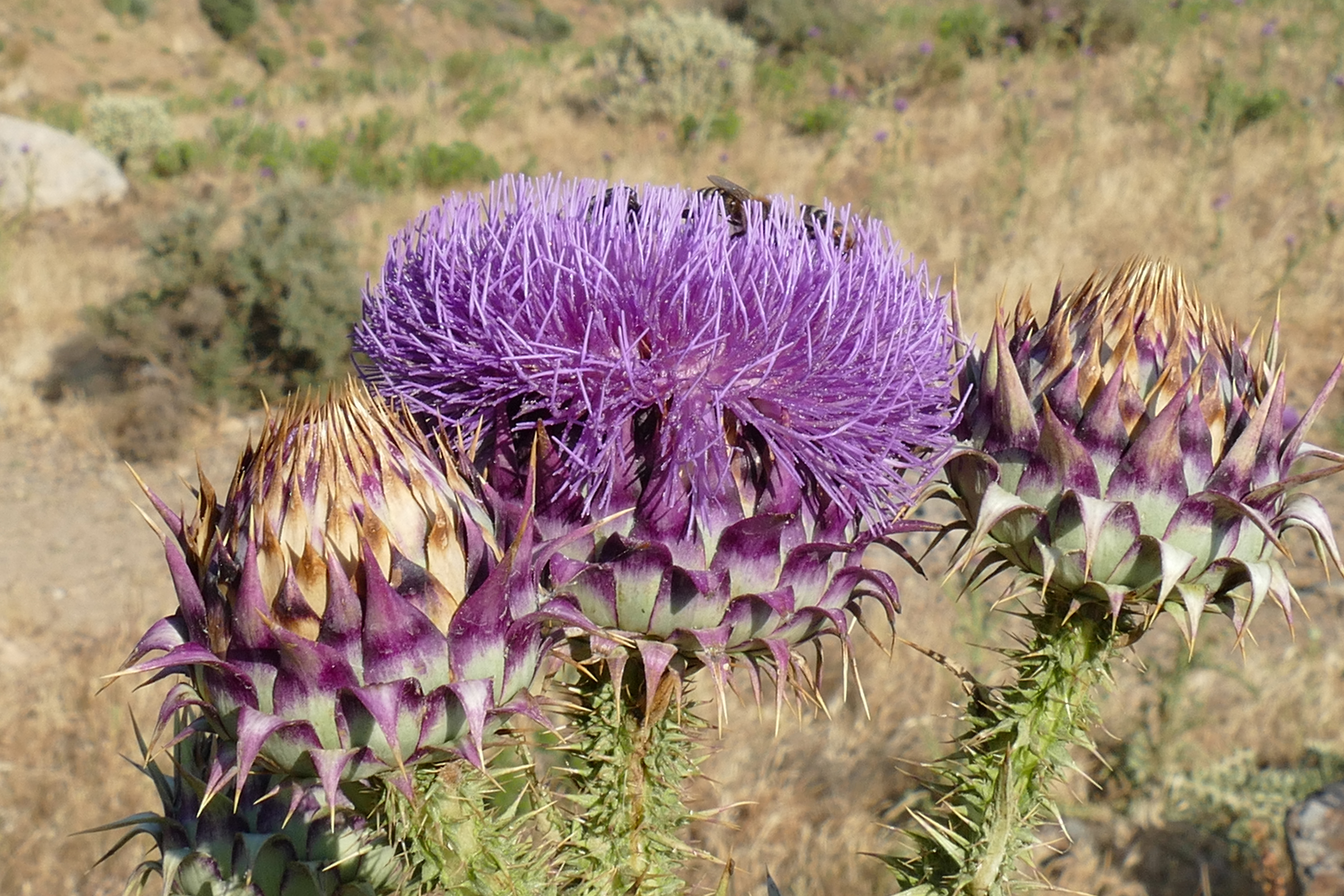 Onopordum bracteatum subsp. creticum, Sfakia (Σφακιά), Crete